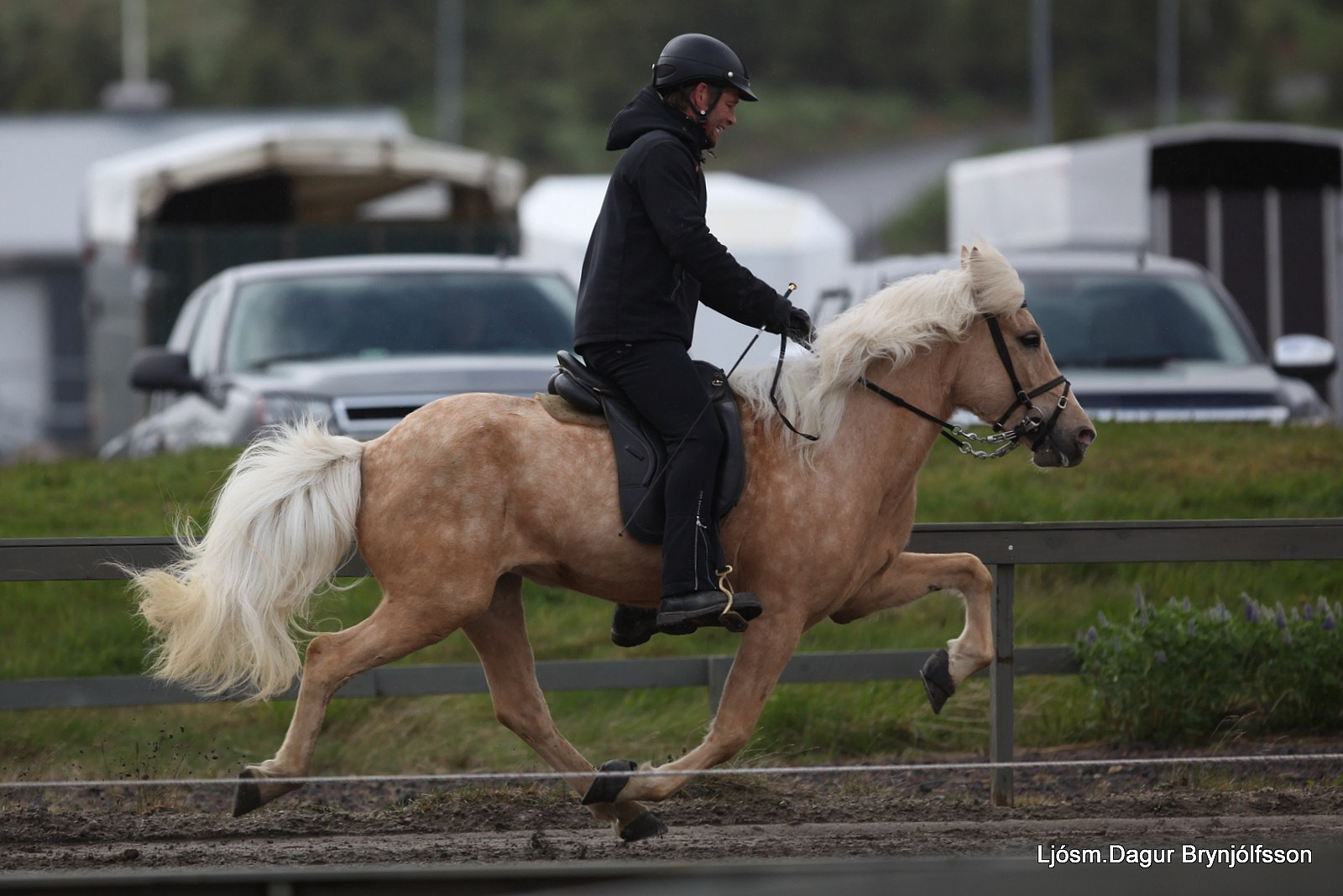 Pacing palomino Icelandic horse